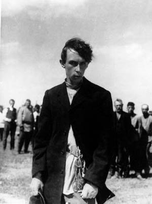 Erast Garin as Maxim at the movie tests of Yunost Maksima